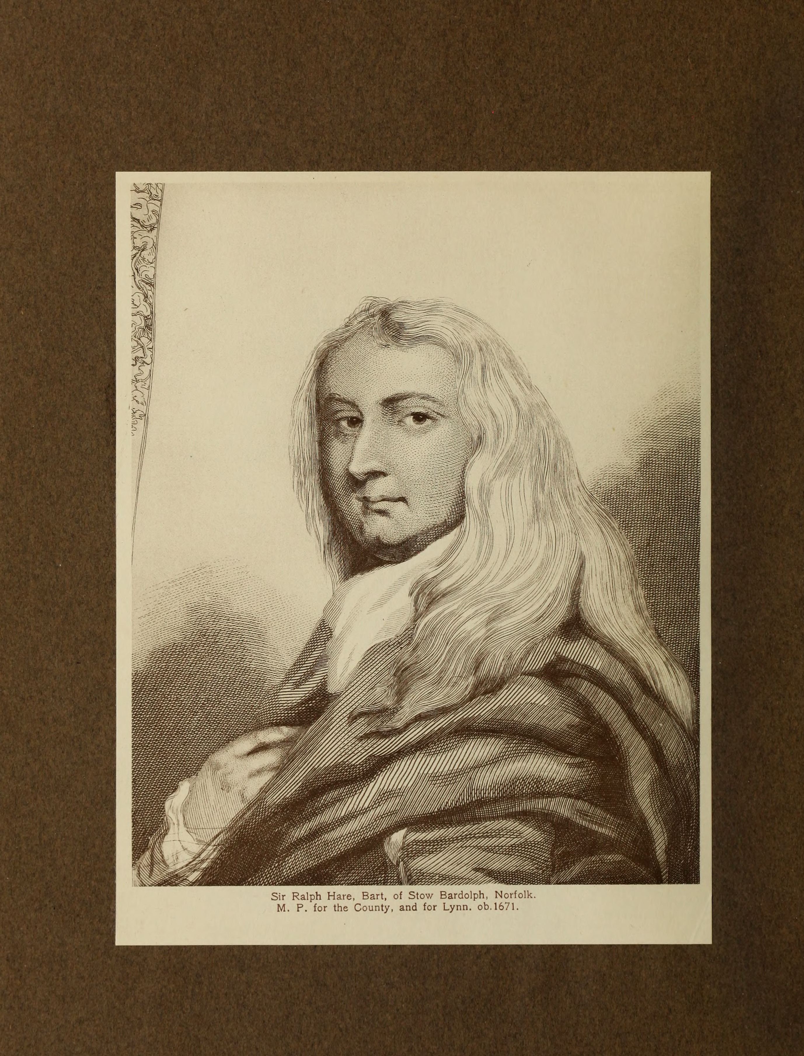 Title: An address from the gentry of Norfolk and Norwich to General Monck in 1660; facsimile of a manuscript in the Norwich Public Library. With an introduction by Hamon le Strange and biographical notes by Walter Rye Year: 1913 (1910s) Authors: Norfolk (England). Gentry Albemarle, George Monck, Duke of, 1608-1670 Le Strange, Hamon, 1840-1918 Norwich (England). Gentry Subjects: Publisher: Norwich : Jarrold Text Appearing Before Image: ' Text Appearing After Image: ADDRESS TO GENERAL MONCK 53 *GUYBON, Tho. (A2). Sir Thos. Guybon, of Thursford, was High Sheriffin 1642. GUYBON, Wm. (A2). His son, who was also of Thursford. HALL, John (B3). Sheriff of Norwich 1693. Possibly some relationof Bishop Joseph Hall. HAMOND, Ro. (A3). The family was decidedly Royalist. Capt.Hamond, of Ellingham, a Royalist, was prisoner in 1655, andJohn Hamond, a Royalist Compounder. A John Hamond wasMayor of Lynn in 1673. HARDY, Leonard (Hl).j Probably related to Richd. Hardy, who was a,, Jeremy (C2). J Royalist Compounder.♦HARE, Ra. (A3). Sir Ralph Hare, of Stow Bardolf, was created baronetin 1641; High Sheriff in 1650, M.P. for Norfolk 1654, 1656, and1661, and for Lynn 1660. Was one of the excluded, or non-approved, members of Parliament of 1656, and died 1671. He married Vere, the sister of Horatio D. Townshend, oneof the promoters of the Address. HARTSTONGUE, Finch (C2). Was son of Hy. Hartstong, ofMulbarton, by Joyce Finch. HARWOOD, John (C2). Possibly ancestor of